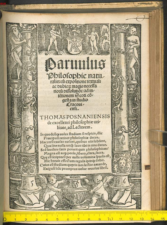 Cover of the book of the Polish geographer of 16 centuries Yan of Stobnic «Parvulus philsophiae naturalis».